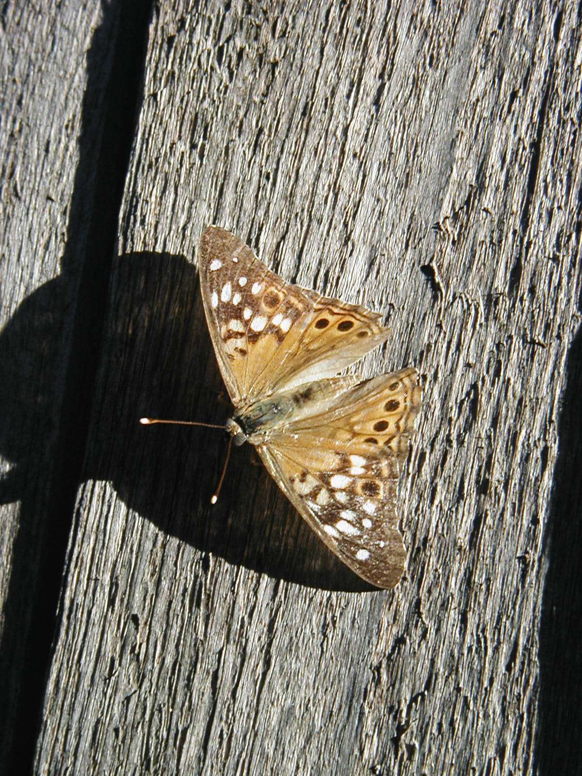 A hackberry emperor, Asterocampa celtis, photographed on a fence in Denton, Texas, USA.